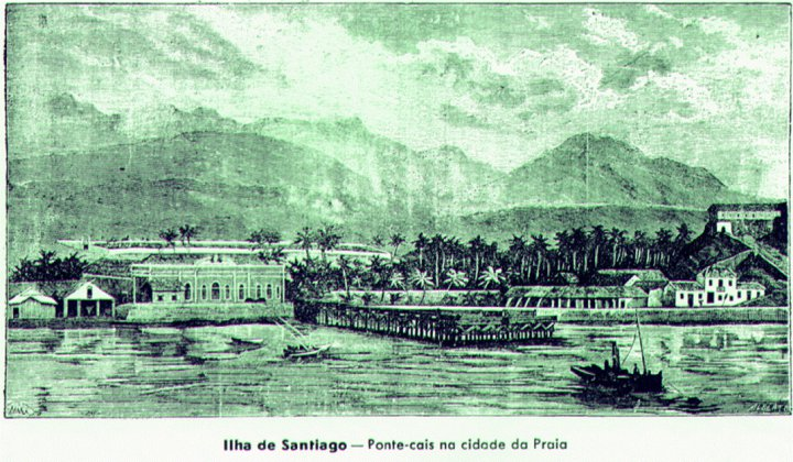 View of the Port of Praia, 1936